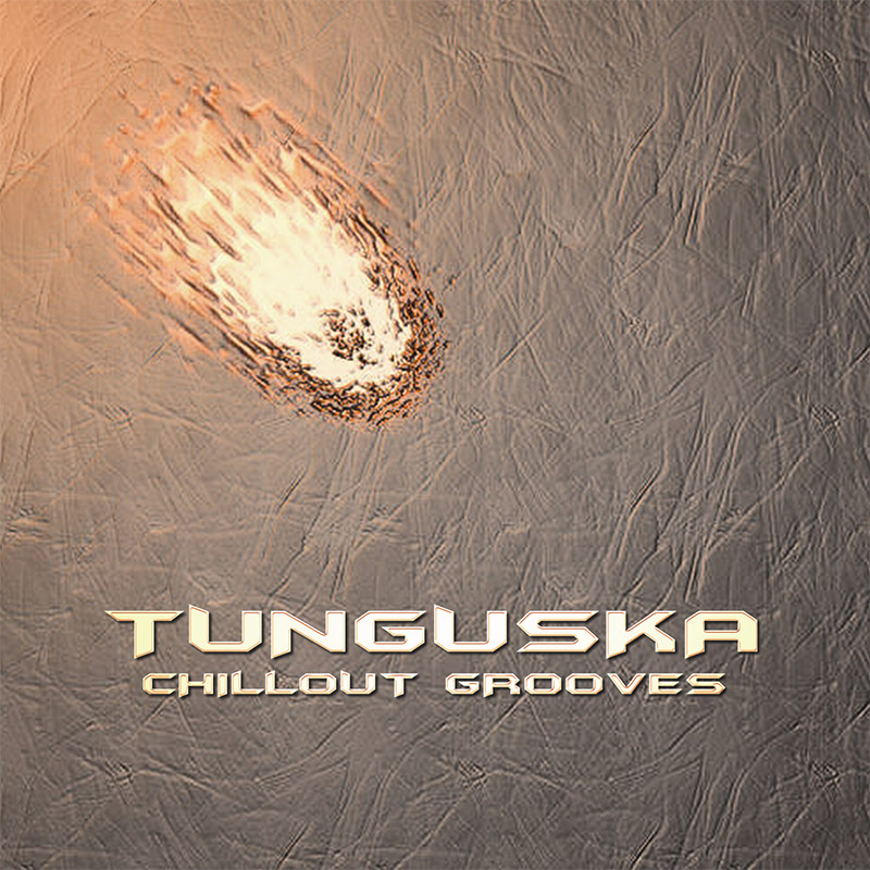 Album cover of Tunguska Chillout Grooves vol. 1 by Tunguska Electronic Music Society